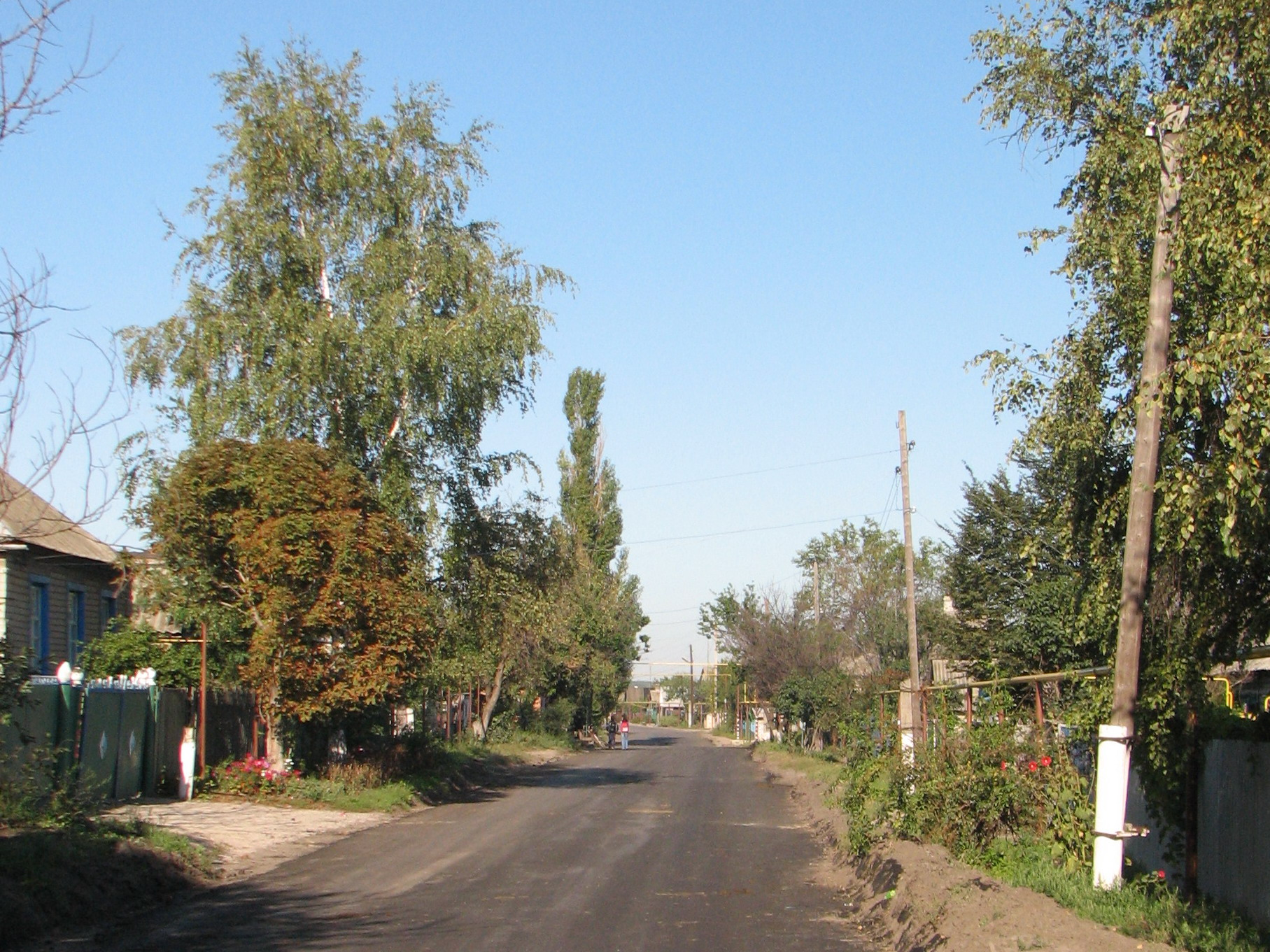 Main street of Shipilivka, Ukraine